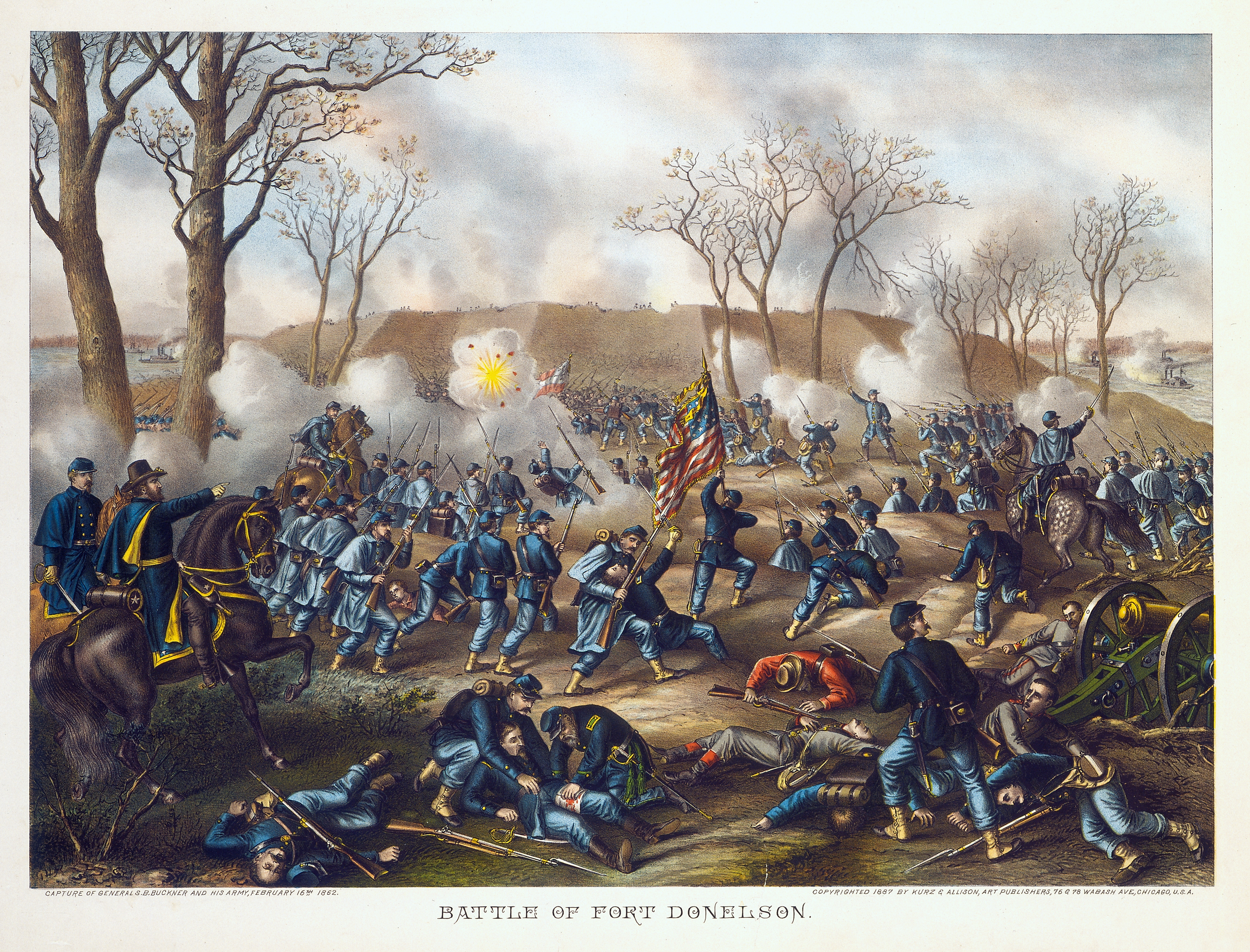 Image of Union soldiers in the foreground, some wounded and some fighting the Confederate soldiers in the background. "BATTLE OF FORT DONELSON" (printed below image). Battle took place in Tennessee, February 16, 1862.Title: "Battle of Fort Donelson."